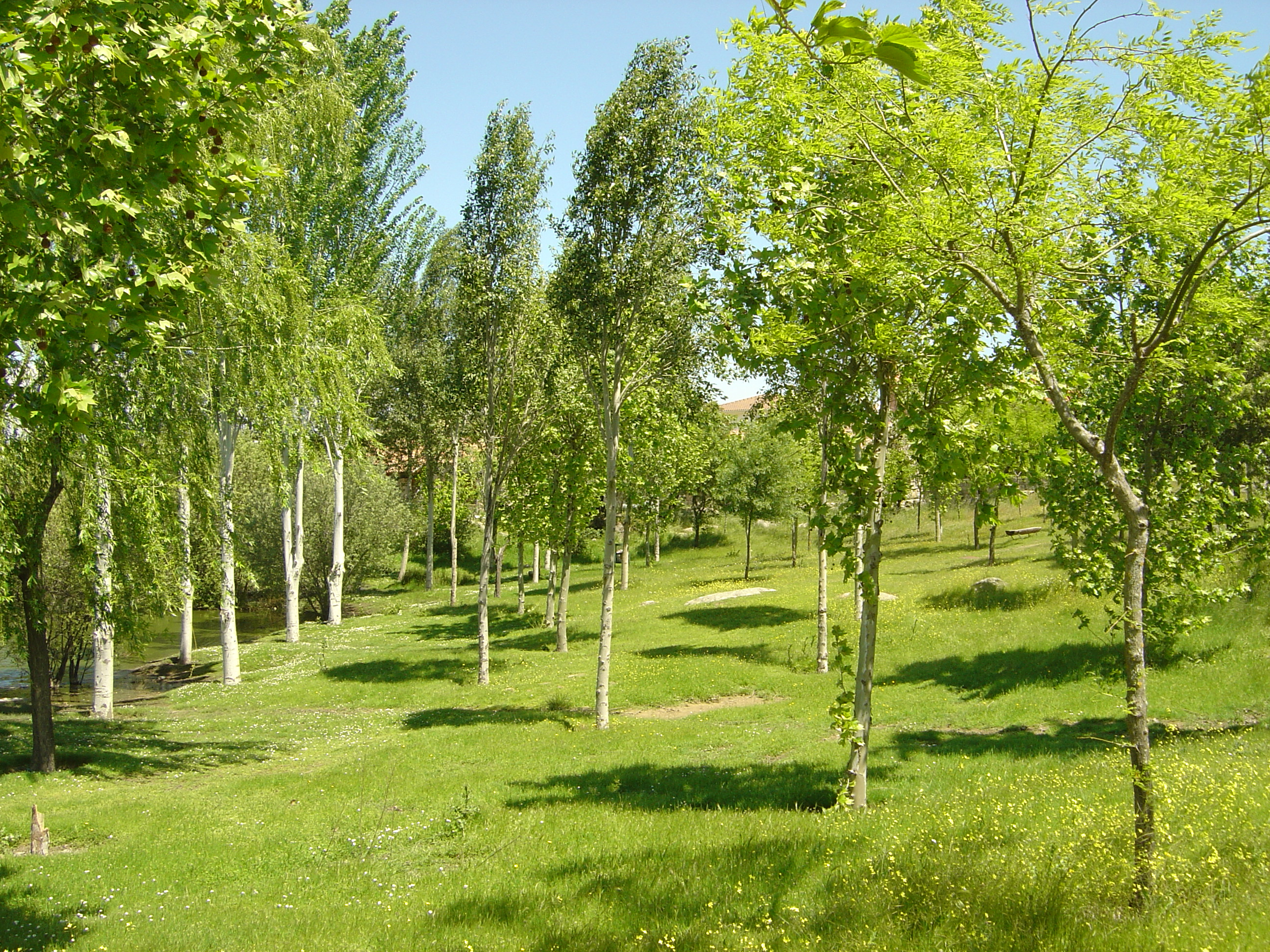 Los Jardines del Lago, Chapinería, Madrid.